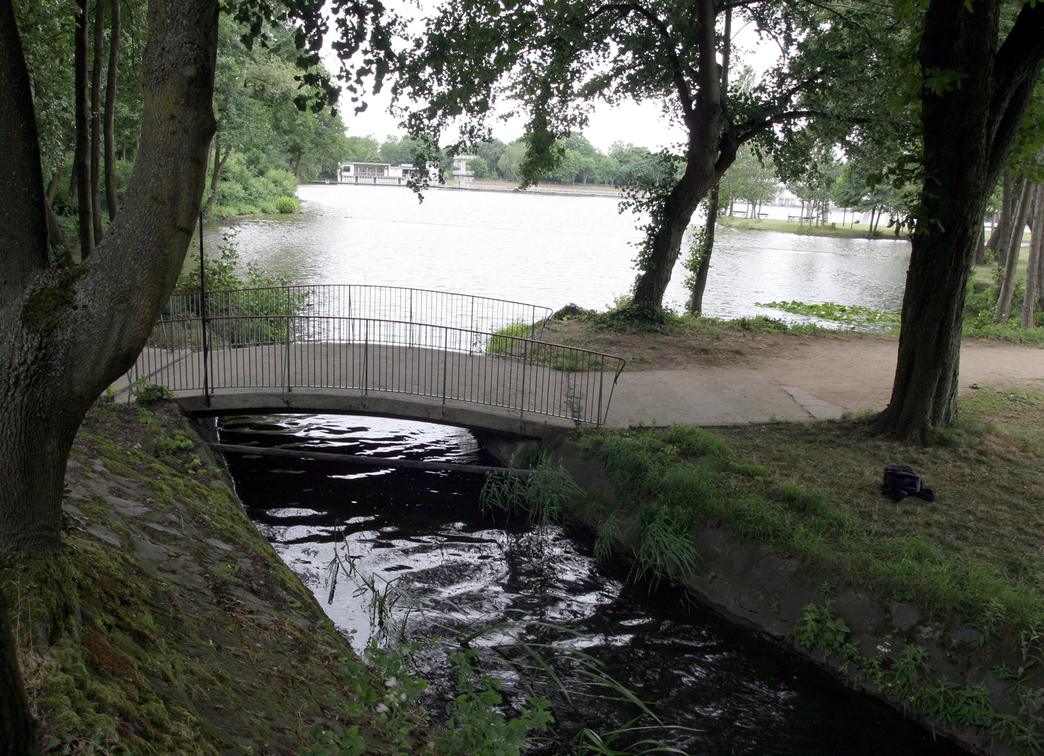 The creek Darmbach flows into the pond Großer Woog in the city of Darmstadt (Hesse, Germany)